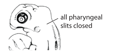 Standard Event System character depiction